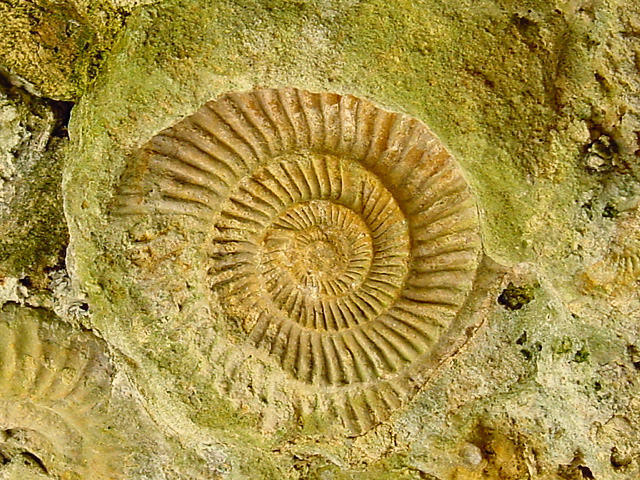 Detail from the Grotto at Bowood. The walls and ceiling were lined with ammonites, although this is just an impression of the ammonite. Bowood — is a stately Georgian country house and landscape gardens of the Marquis and Marchioness of Lansdowne. English landscape gardens designed by Lancelot "Capability" Brown. Interiors designed by Robert Adam in the 18th Century.